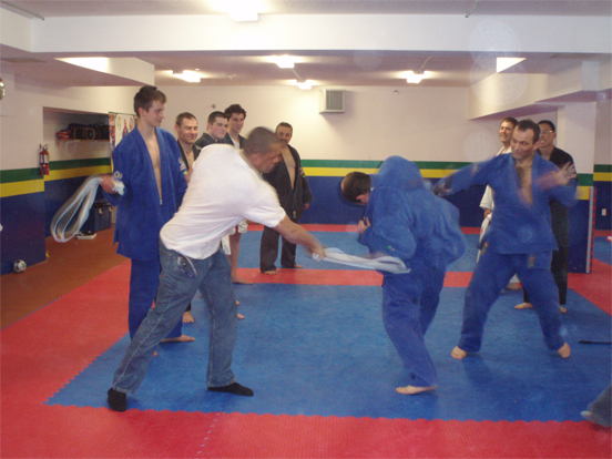 jiu-jitsu